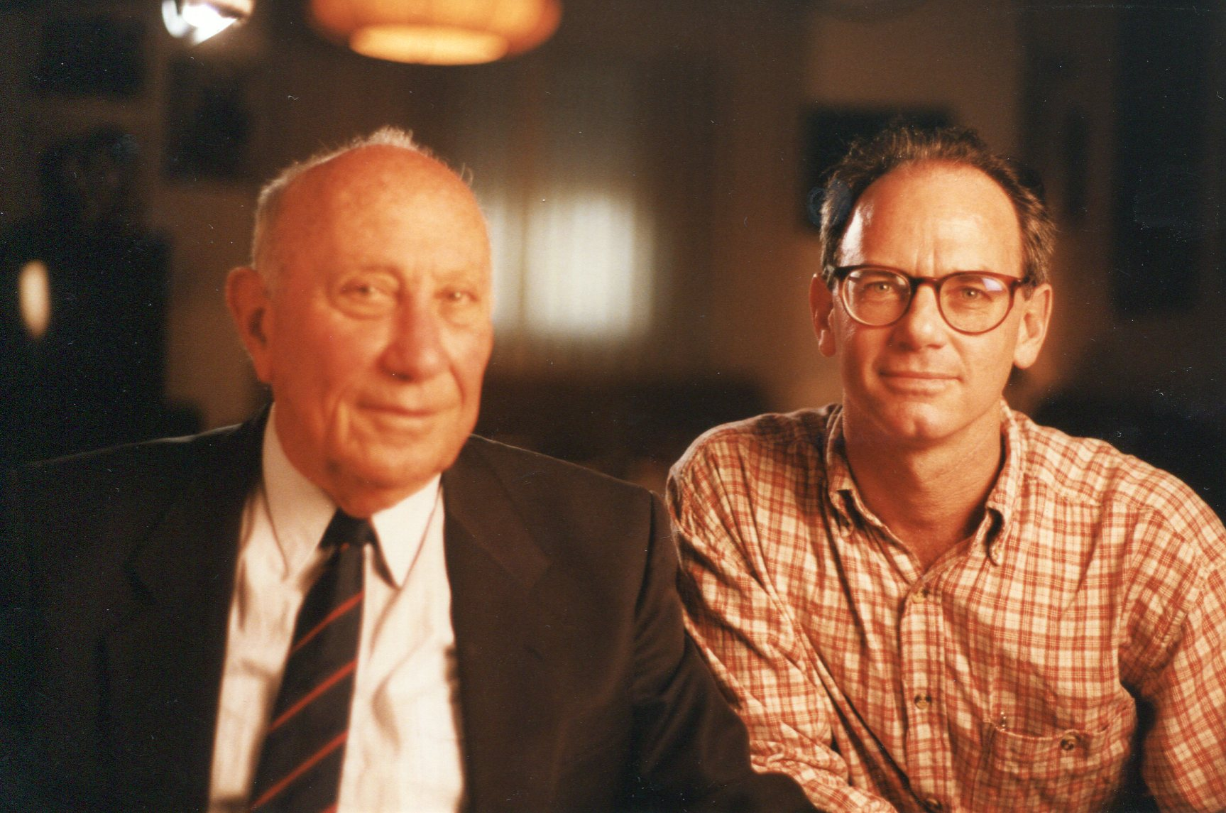 Ahron Bregman and Meir Amit